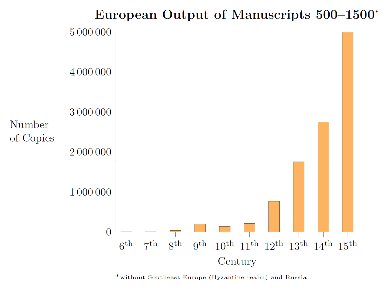 Estimated European output of manuscripts from 500 to 1500. Not included are individual deeds and charters.